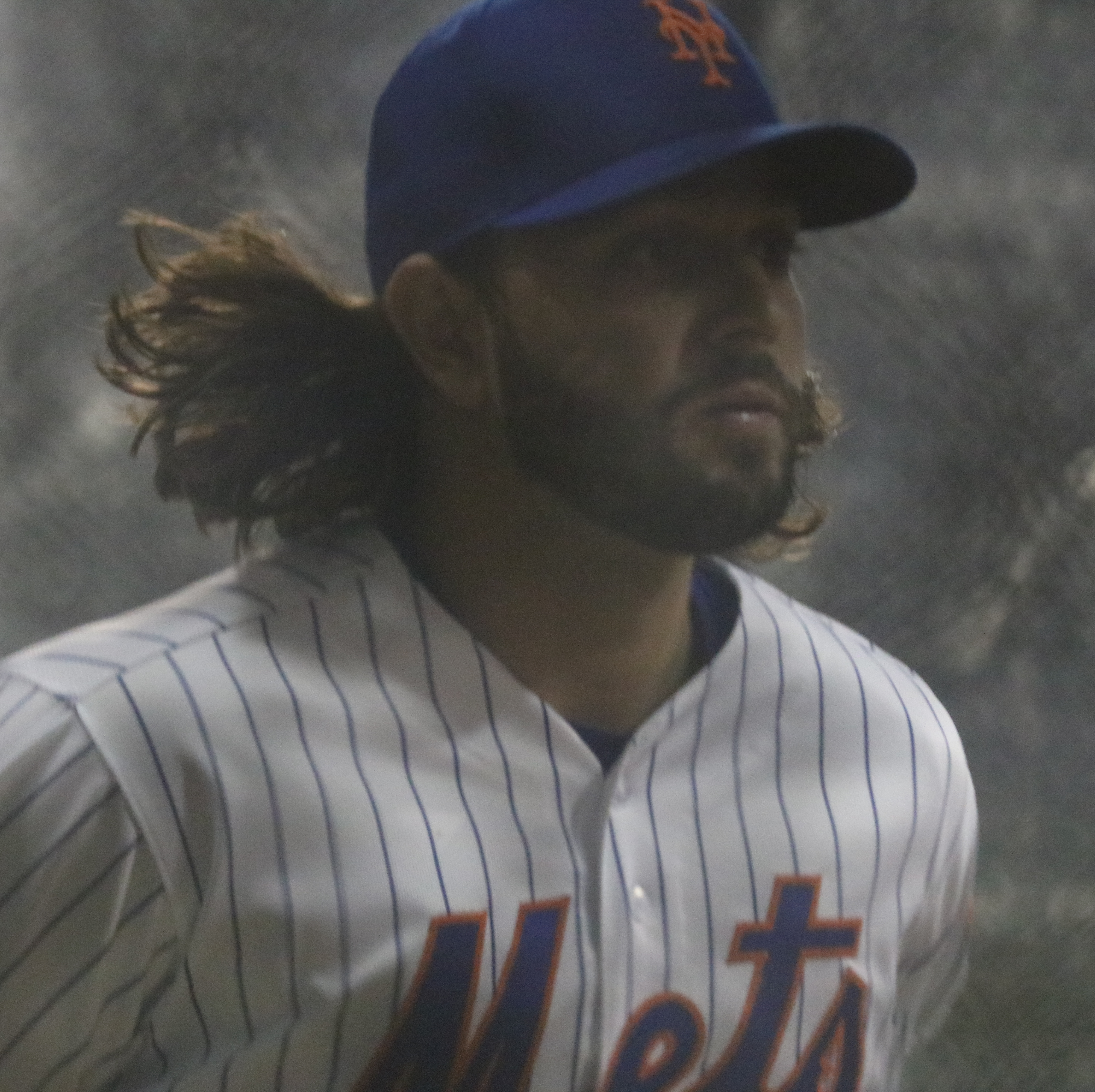 Robert Gsellman in the bullpen on July 13, 2018